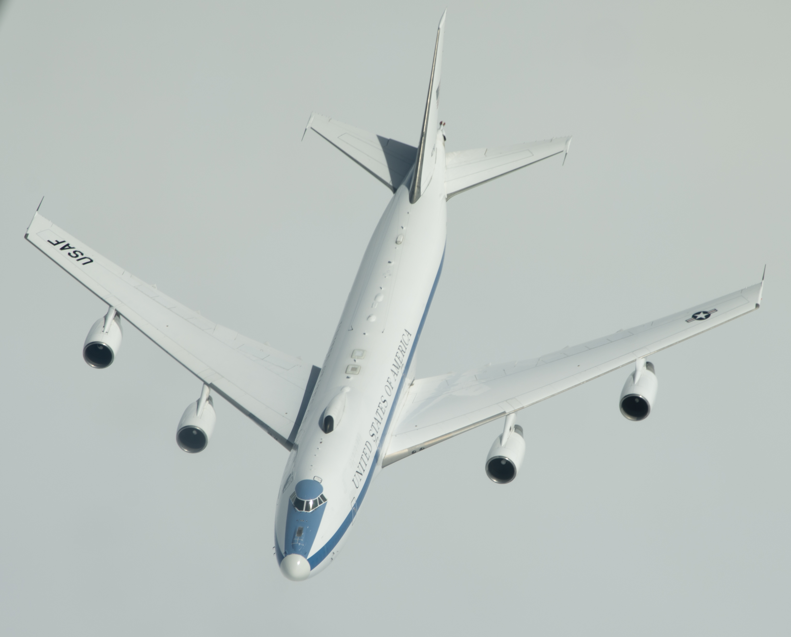 A Boeing E-4B Nightwatch flying below a McDonnell-Douglas KC-10 Extender of Travis AFB in preparation for refuelling, June 12 2017.